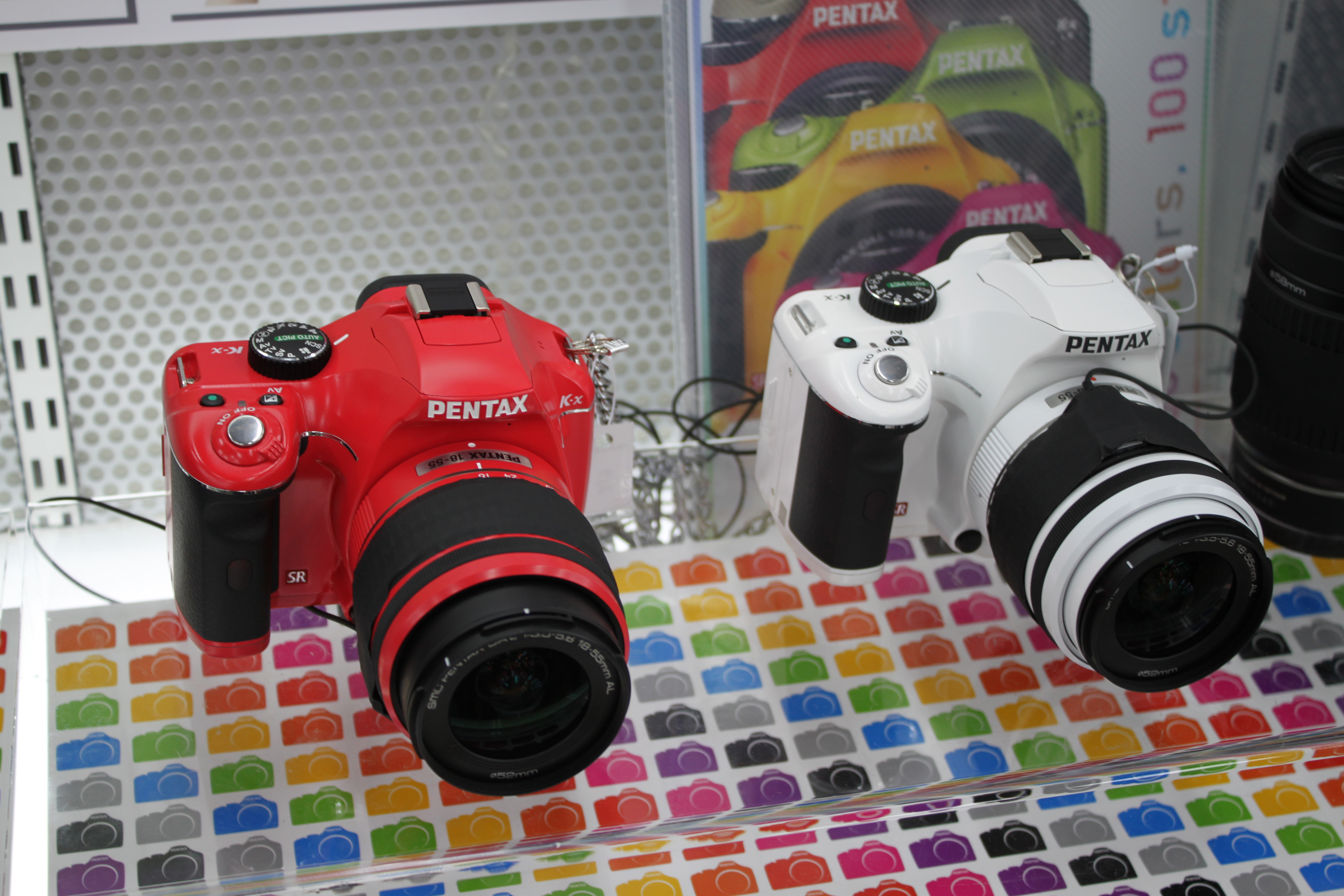 Pentax K-x DSLR camera. Цифровая однообъективная зеркальная камера Pentax K-x.